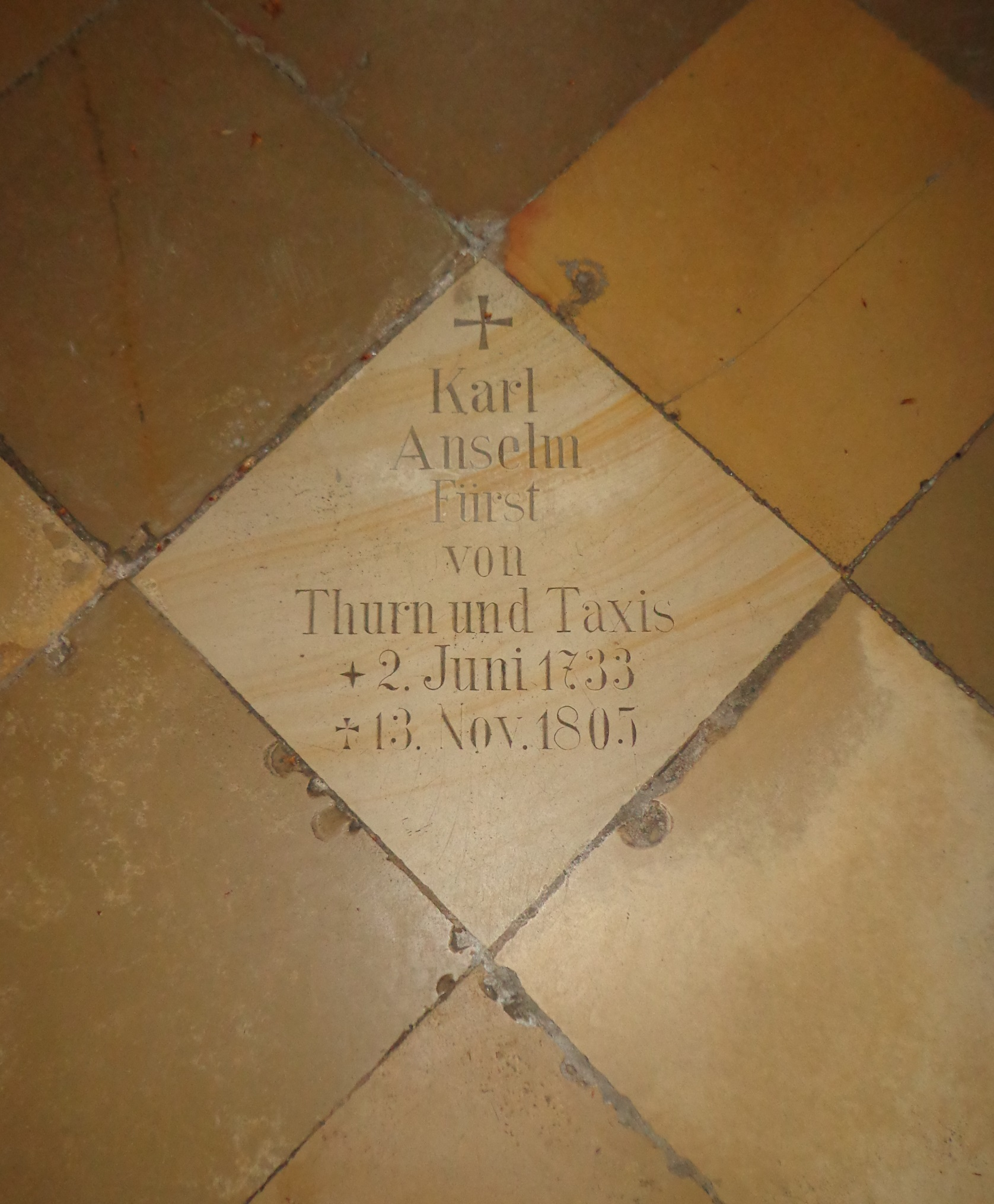 St. Emmeram's Basilica (Regensburg) - St Wolfgang Crypt: Grave of Karl Anselm, Prince of Thurn and Taxis (died 1805)